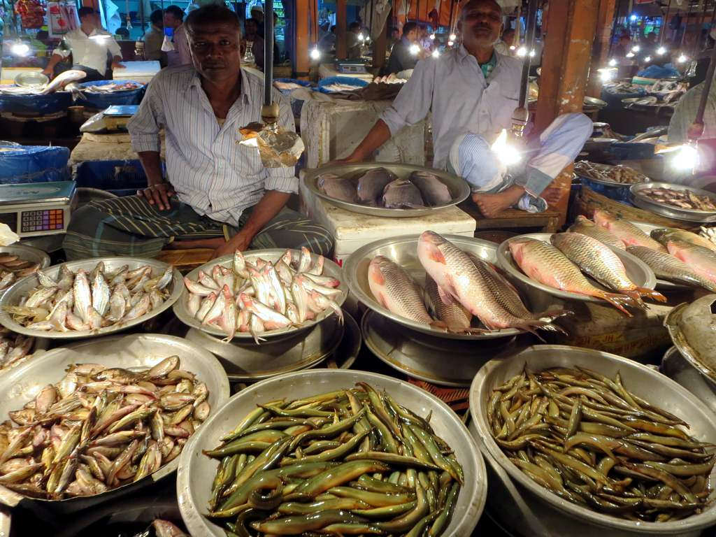 The fish market in central Sylhet, Bangladesh, is worth a visit.